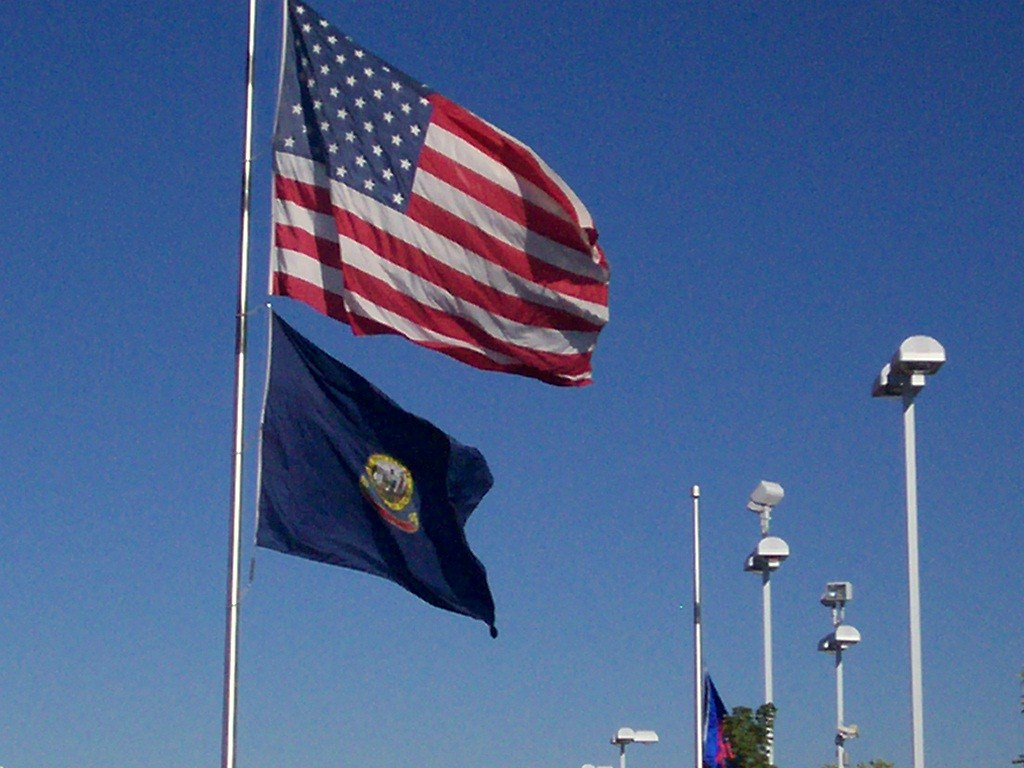 United States and Idaho State flag flying.